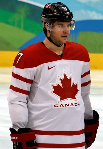 Brent Seabrook, Canadian ice hockey defender